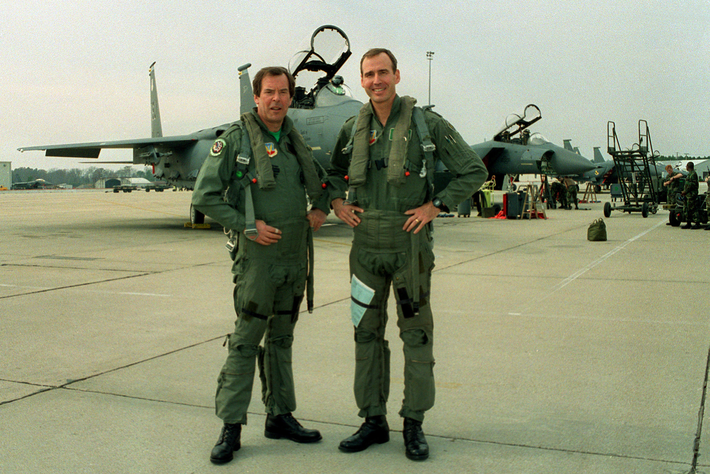 Peter Jennings, of ABC News, and Lt. Col. Charlie Heald, commander 335 Fighter Squadron, pose candidly for a "hero" shot in front of the rows of F-15E Strike Eagles on the flightline at Seymour Johnson Air Force Base.